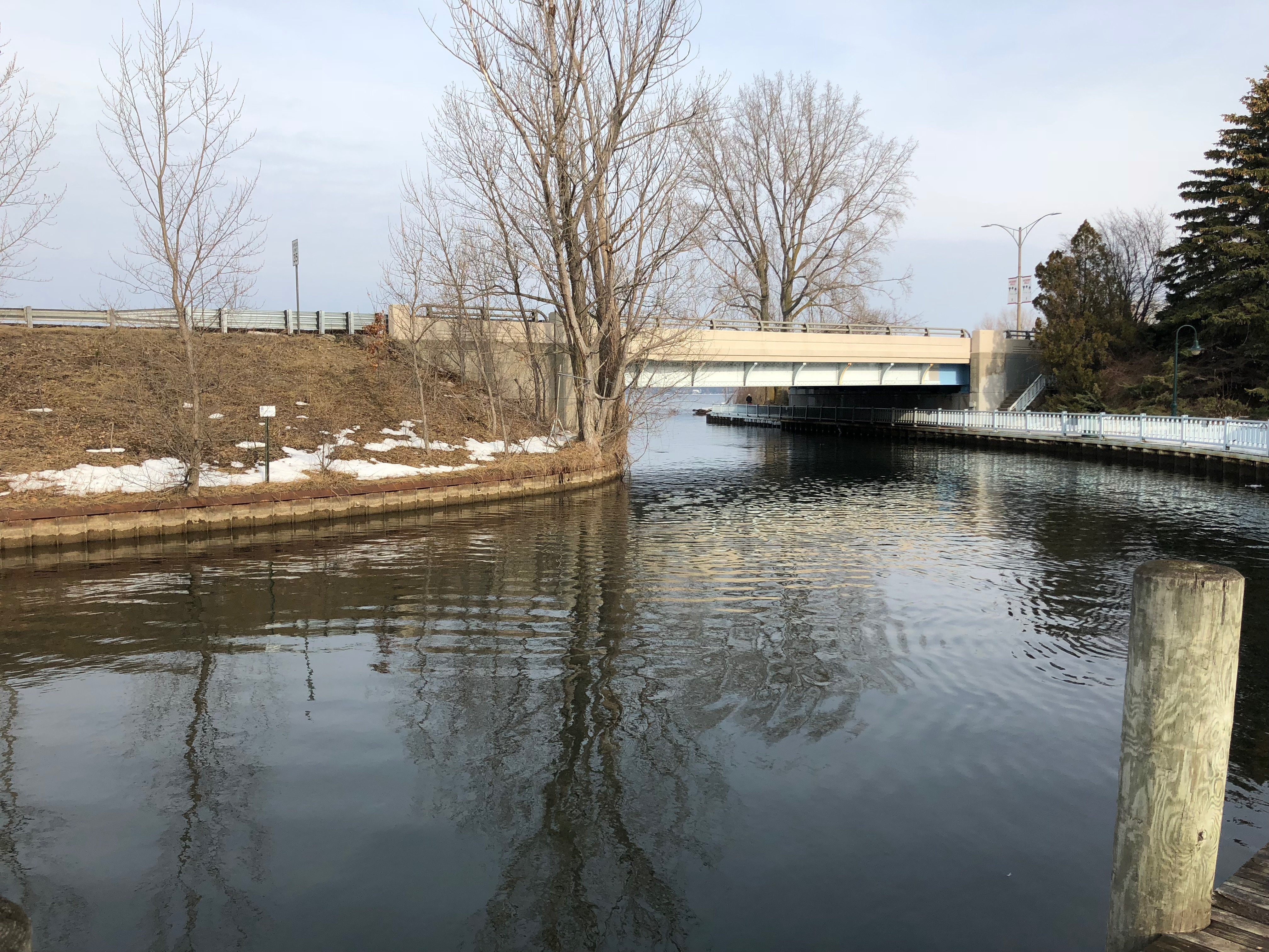 Murchie Bridge, which carries Grandview Parkway over the Boardman River in Traverse City, Michigan